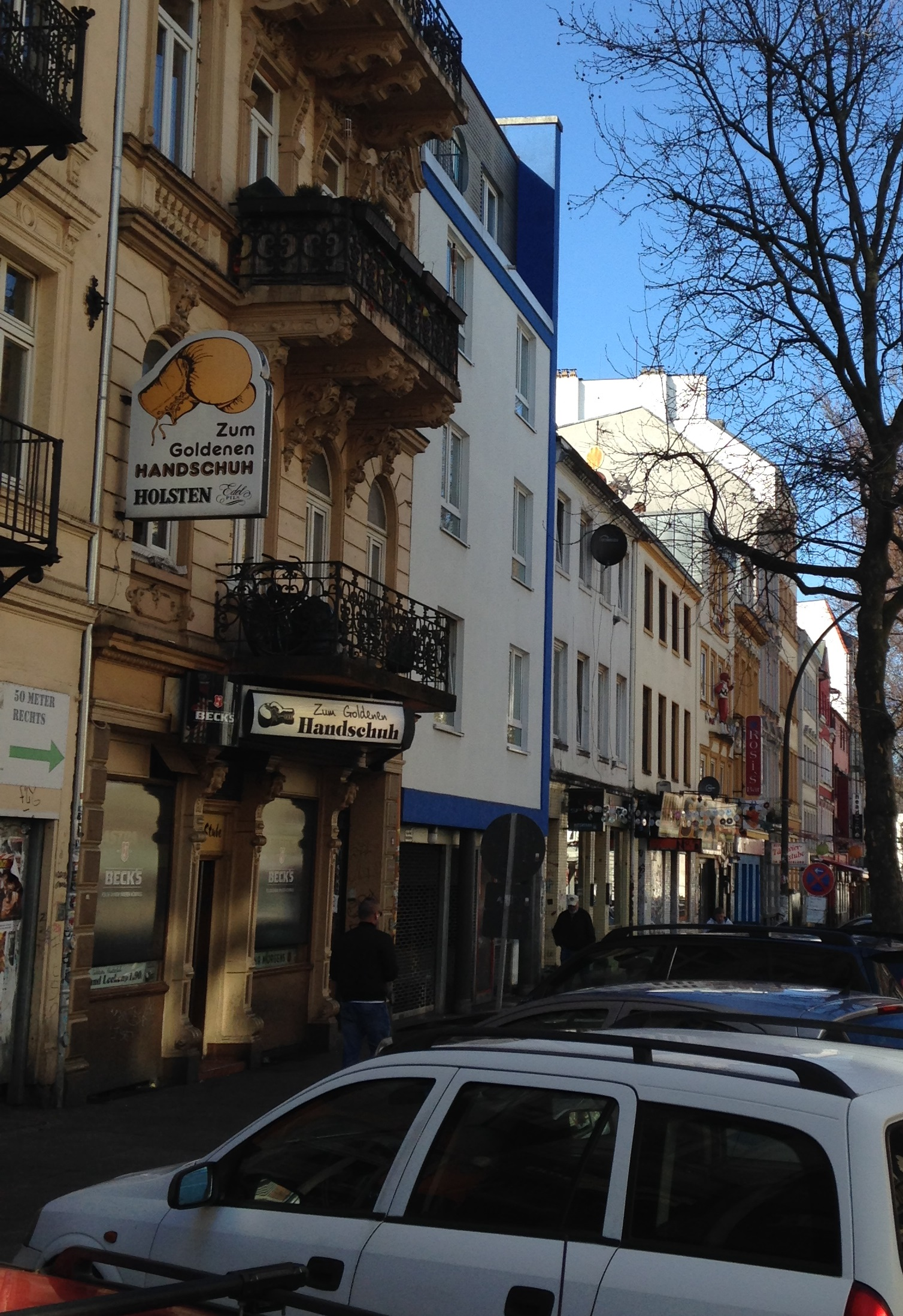 Die legendäre Kneipe Zum Goldenen Handschuh auf St. Pauli.